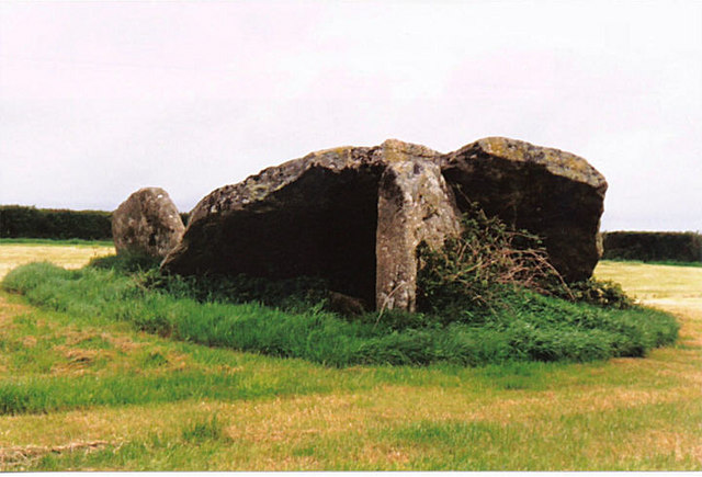 Lesquite Quoit This is easy to access, just inside the field and somewhere to park safely.